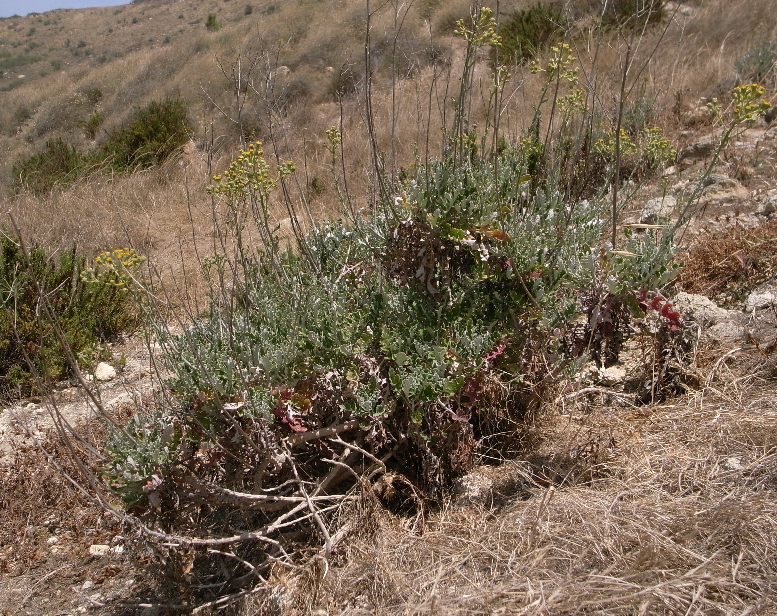 Senecio cineraria at Ghajn Tuffieha Malta